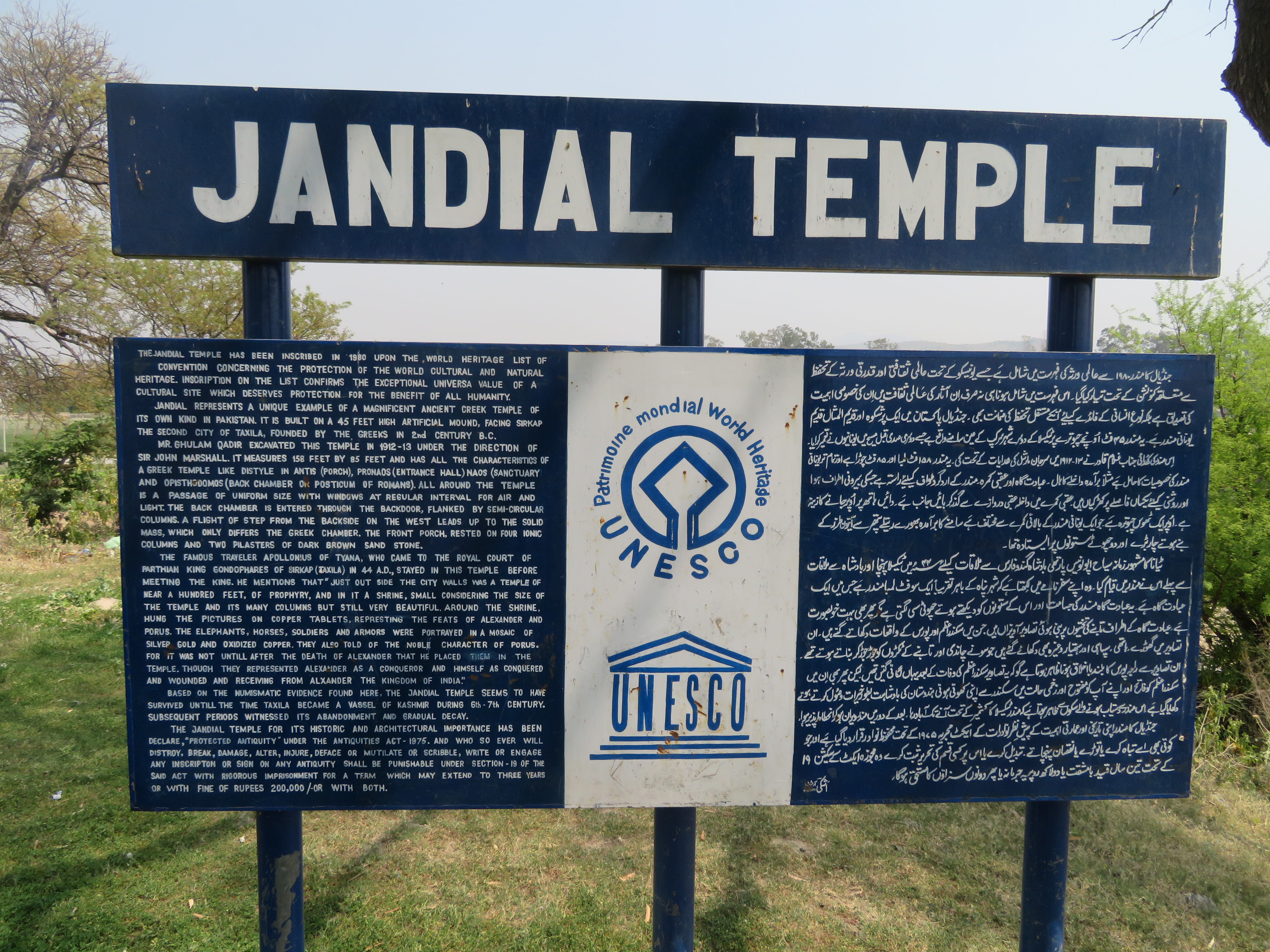 Information board at Jandial Temple, Taxila, Pakistan